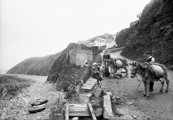 Reproduction ID: G3152 Maker: Francis Frith & Co Date: About 1906 Materials: silver halide: gelatine